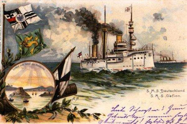 Post card sent in 1899. Showing two German ships: the armored frigate SMS Deutschland (1876) and the light cruiser SMS Gefion (1893). The circle in the left corner shows the harbor entry to Jiaozhou Bay (text reads ""Entry to the port of Kiaochow"). Handwriting on lower right: "Dear sister to my birthdays heartfelt [truncated] Congratulations greeting ...!"